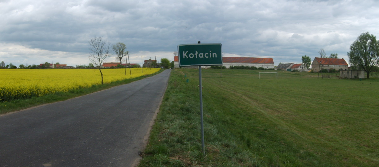 Kołacin is a village in Poland, in Greater Poland Voivodeship